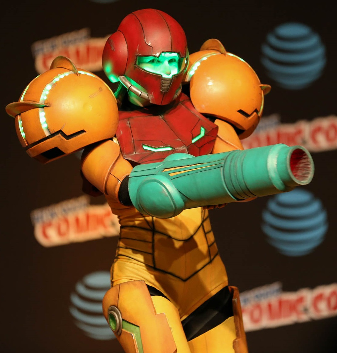 Victoria Miller cosplaying as Samus Aran (from Metroid) in the Eastern Championships of Cosplay contest at the 2016 New York Comic Con.